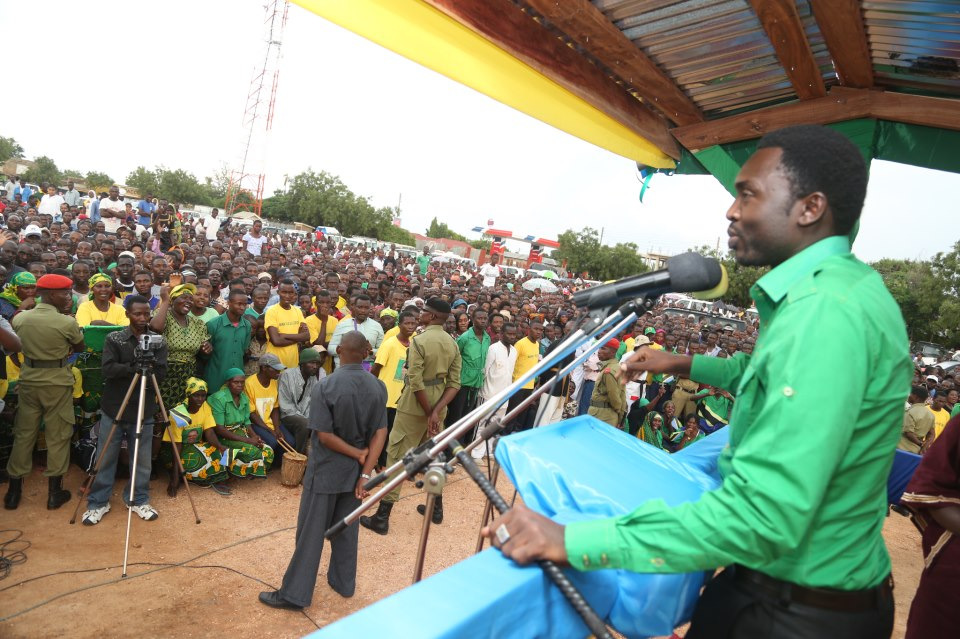 Hamisi Kigwangalla in Nzega